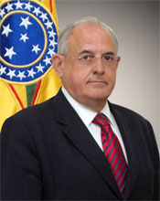 The Minister of Defense of the Federative Republic of Brazil, Nelson Jobim - official photograph.